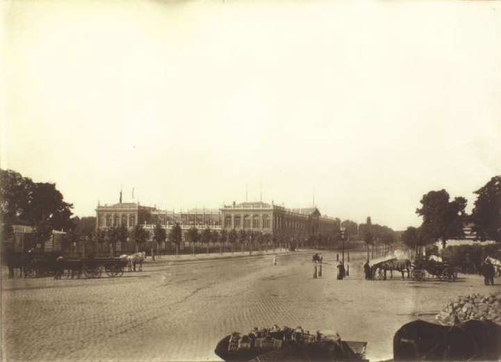 The exhibition hall from the 1872 exhibition in Copenhagen